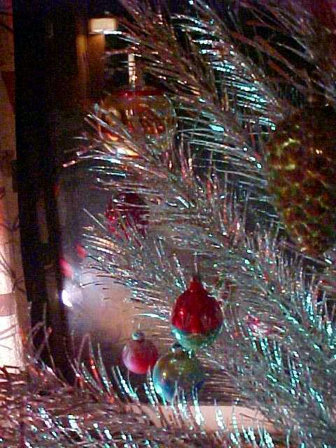 Branches of a vintage aluminum Christmas tree, lit by a rotating color wheel. Photo by Karen Funk Blocher, 2004.